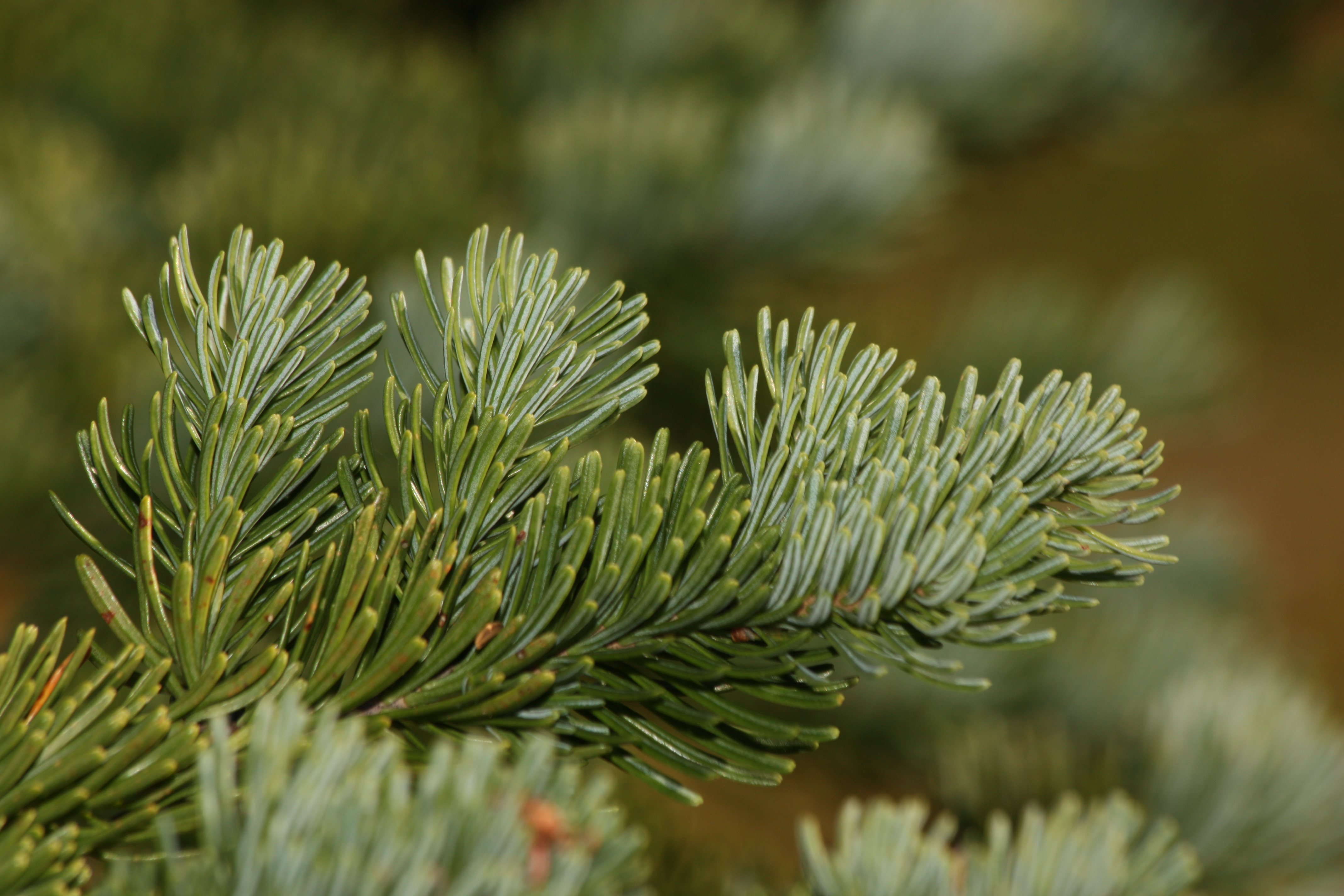 Subalpine Fir, Alpine Fir, Balsam or White Balsam Fir Viewpoint location: Dege Peak, east slope, Mount Rainier National Park Viewpoint elevation: 1889 meter (6197 ft) Location source: Garmin GPSmap 60CSx Location Datum: WGS84